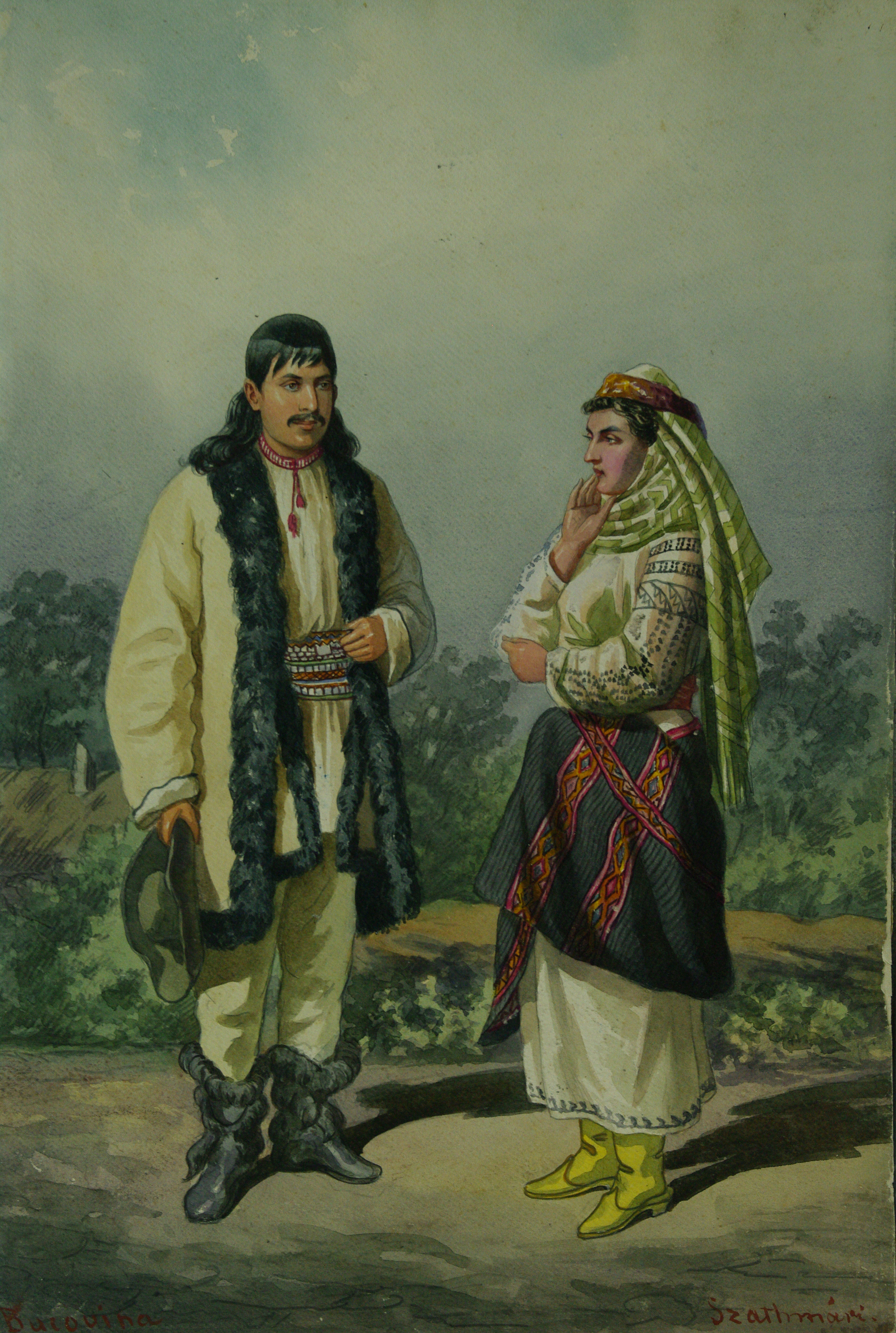 Watercolor by Szathmari Bucovina